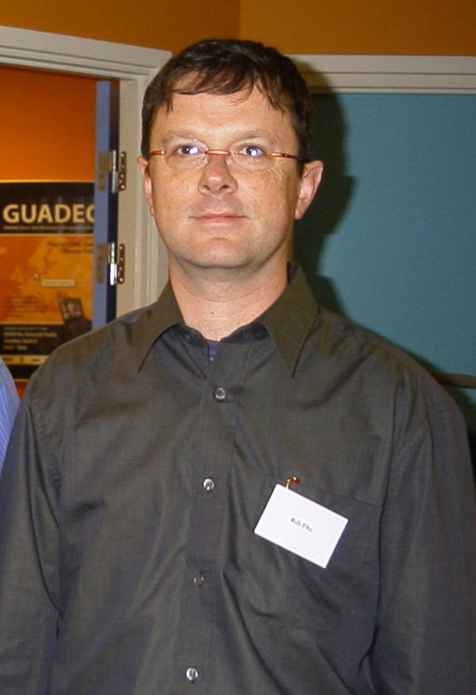 Rob Pike at Guadec 2001 in Copenhagen, Denmark.